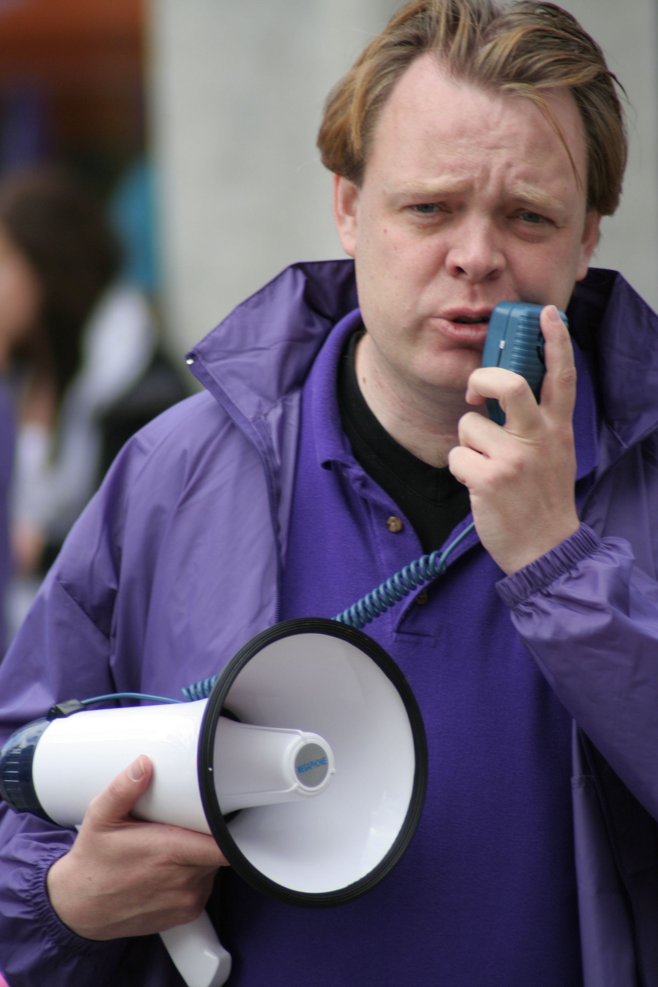 Rick Falkvinge - Demonstration against IPRED in Kalmar May 23, 2009.